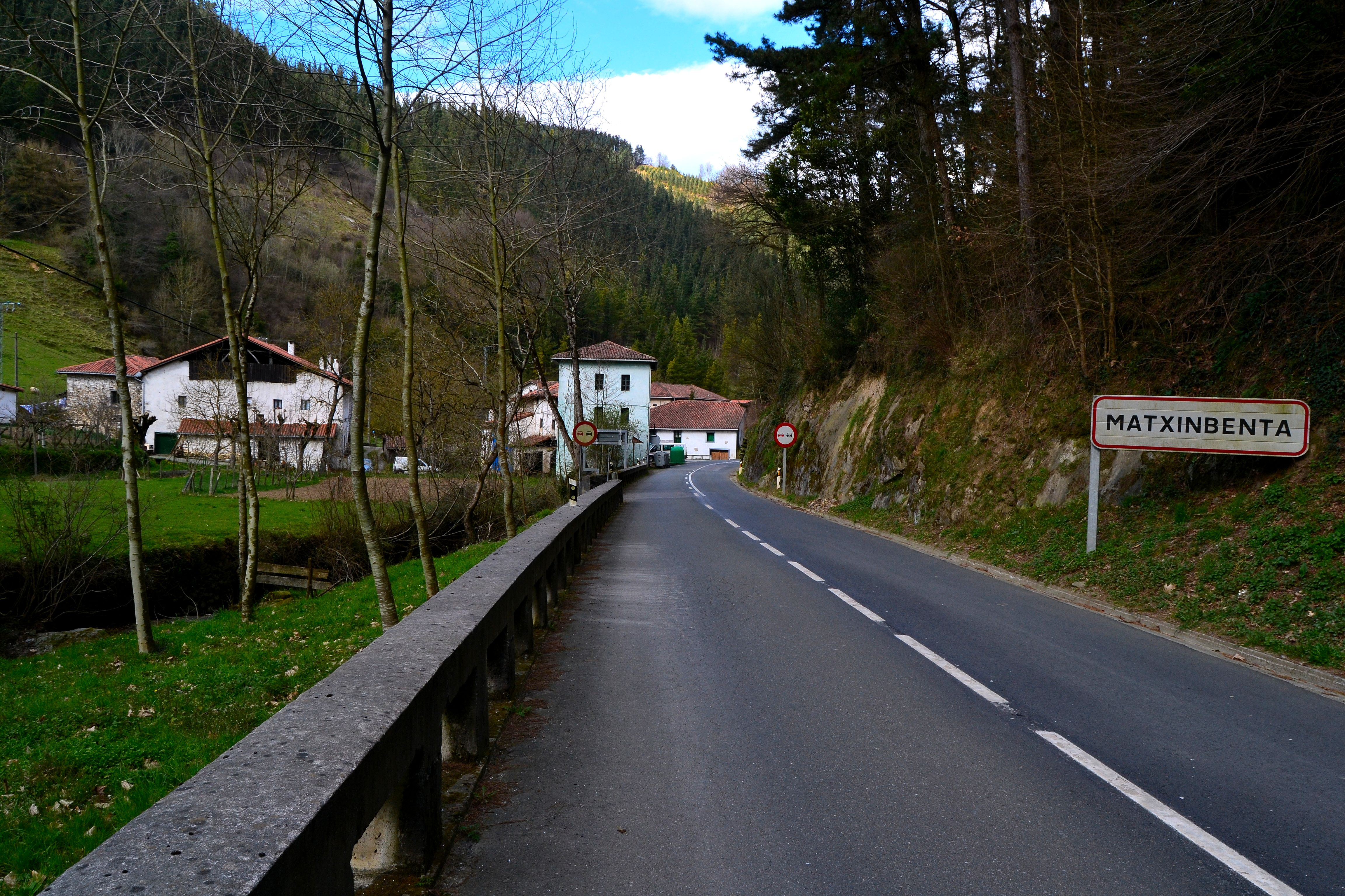 Matxinbenta (Beasain, Azpeitia and Ezkio-Itsaso). Gipuzkoa, Basque Country.